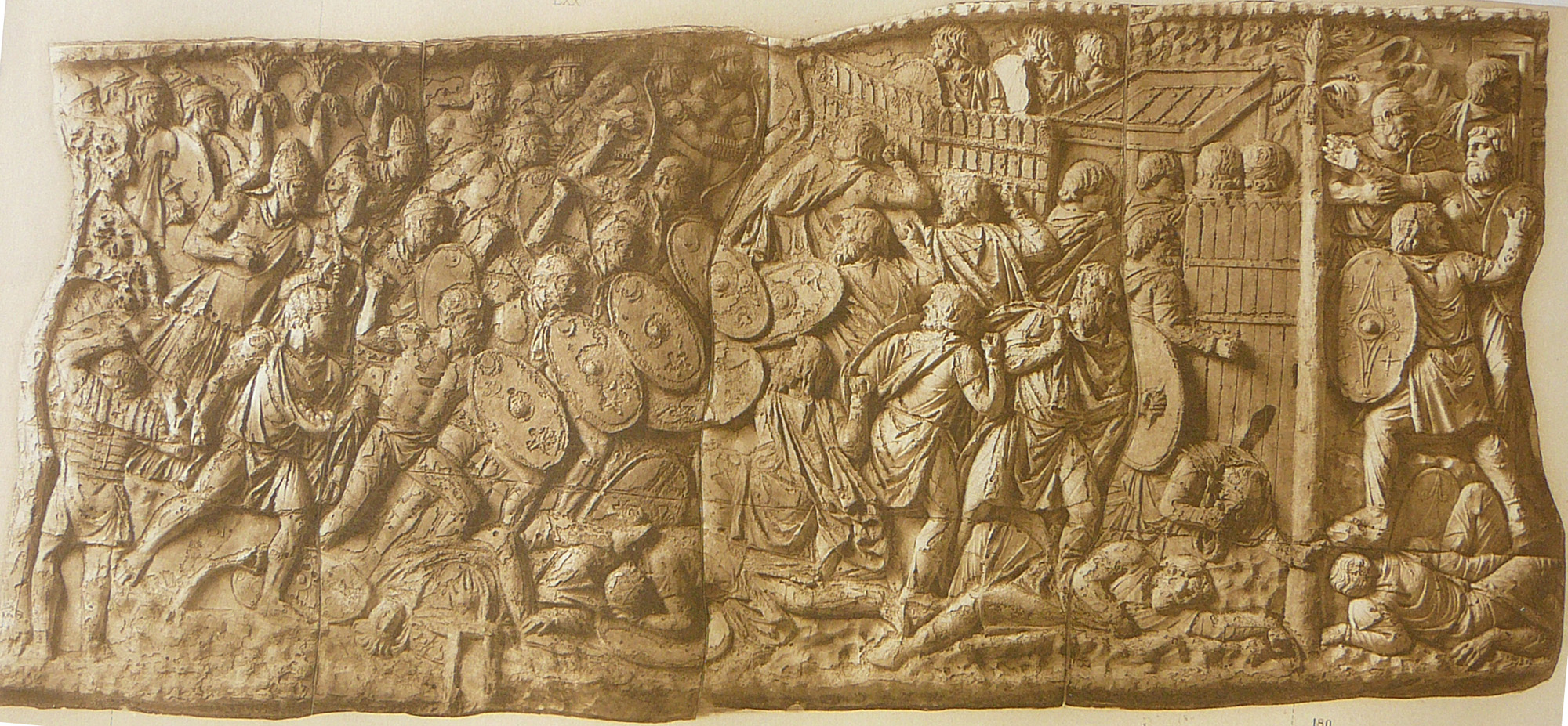 The advance-guard in action (scene LXX); storming of a Dacian fortress (scene LXXI)